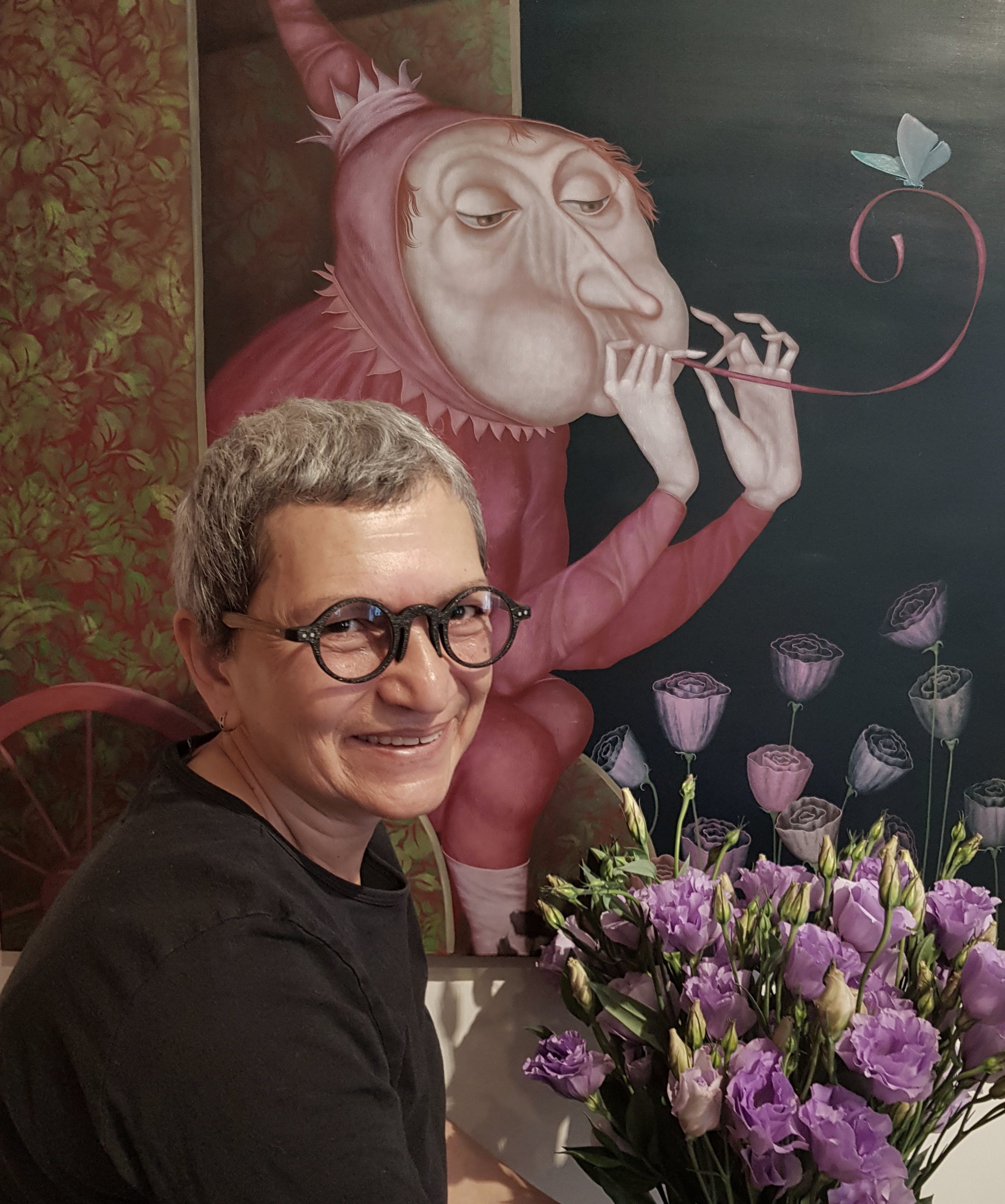 Evgenia Saré